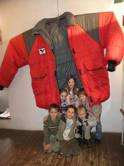 Největší péřová bunda - exponát Muzea rekordů a kuriozit v Pelhřimově.